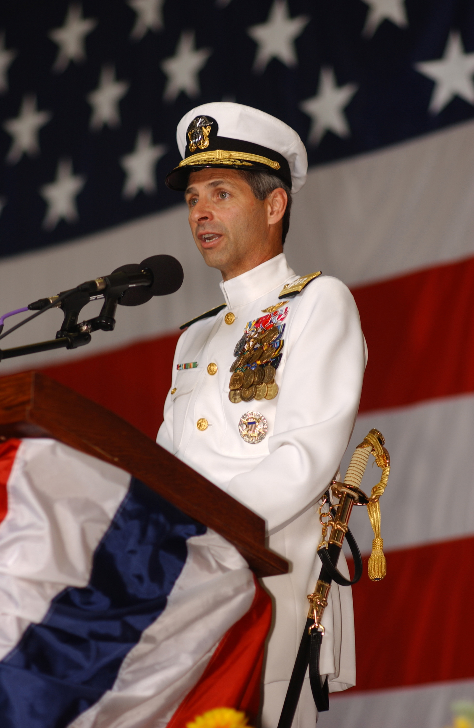 Aboard USS Ronald Reagan (CVN 76) Aug. 28, 2003 -- Guest speaker, Rear Admiral James M. Zortman, Commander, Naval Air Force U.S. Atlantic Fleet, delivers his address during USS Ronald Reagan (CVN 76) change of command. Reagan is the Navy’s newest nuclear powered aircraft carrier, and will be home ported in San Diego, Calif. U.S. Navy photo by Photographer’s Mate 2nd Class Chad McNeeley. (RELESED)